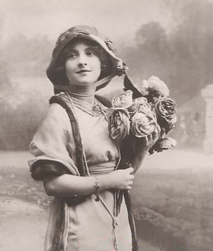 "Miss Daisy Burrell", photograph from theatrical postcard signed "Bassano" (detail); card is postmarked 1912